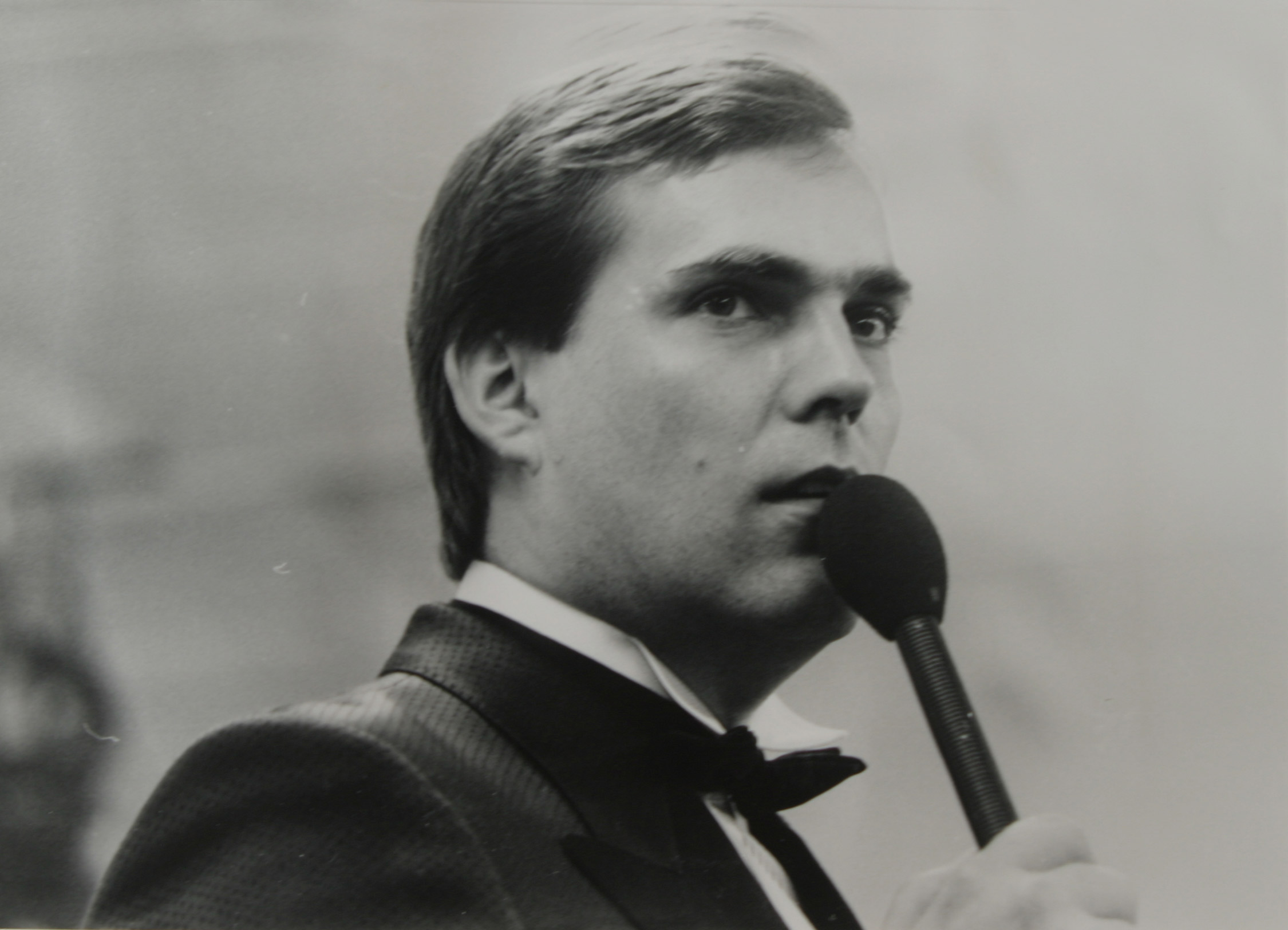 Arnold Verhoeven, native of Uden.